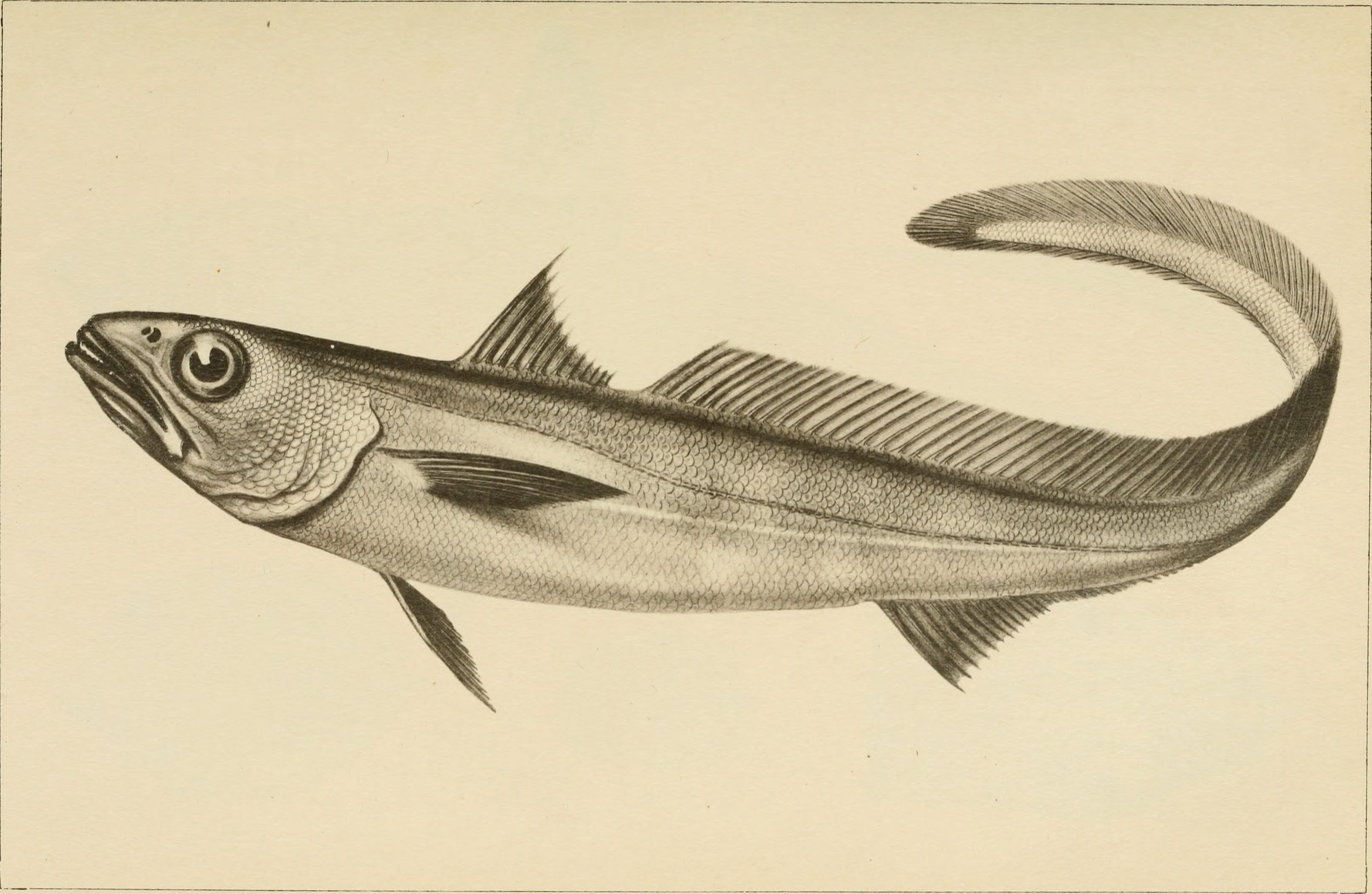 Title: Anales del Museo Nacional de Historia Natural de Buenos Aires Year: 1911-1923. (1910s) Authors: Museo Nacional de Historia Natural de Buenos Aires Subjects: Natural history; Natural history Publisher: Buenos Aires : Impr. y Casa Editora "Juan A. Alsina" Text Appearing Before Image: ' Text Appearing After Image: Macruronus argentinae Lahille, 1915